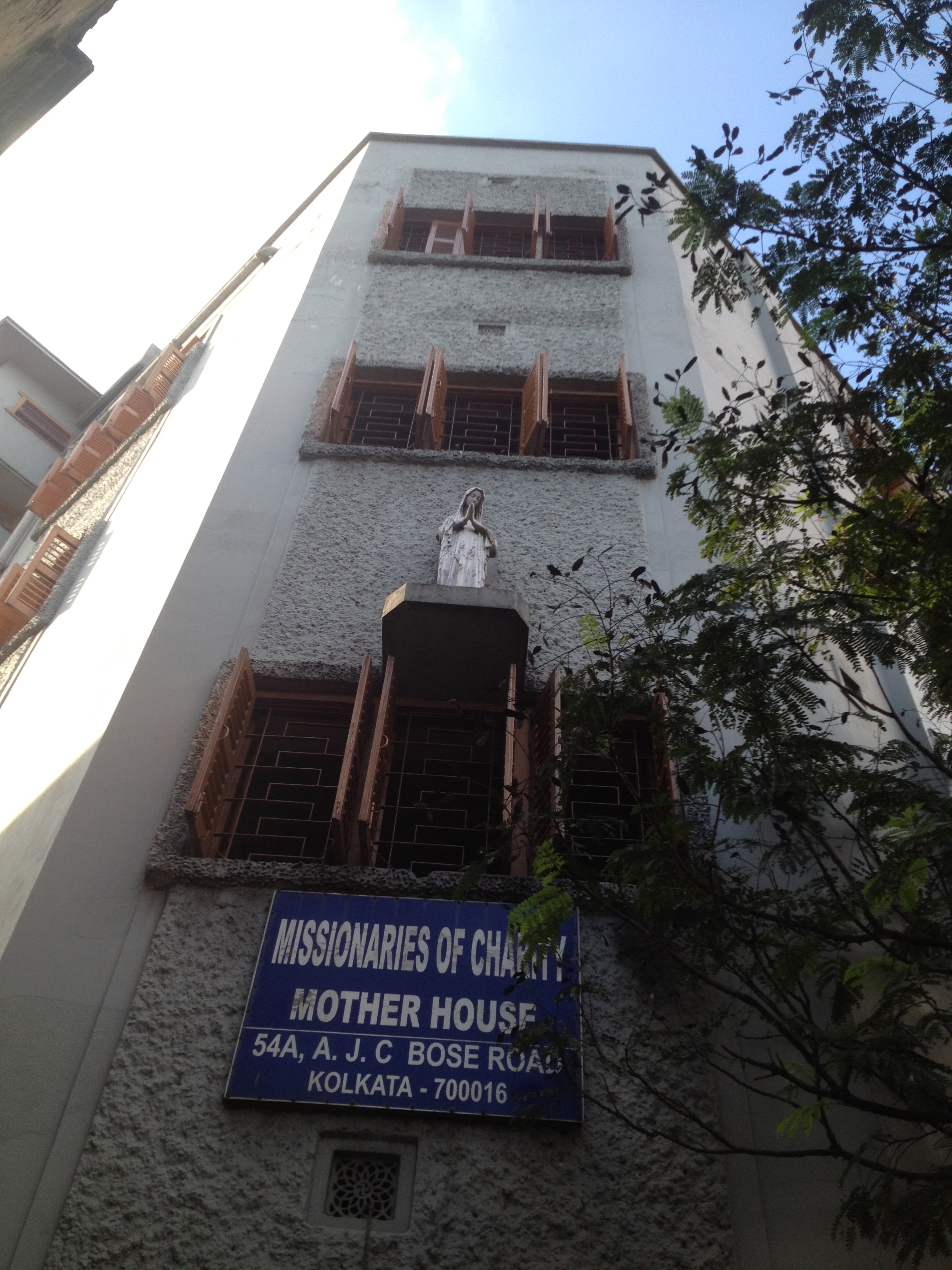 Missionaries of Charity Mother House, Calcutta, India, Kolkata, West Bengal